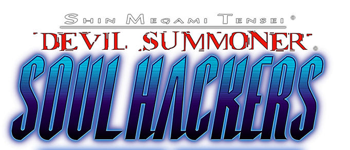 The English logotype for the video game Shin Megami Tensei: Devil Summoner: Soul Hackers.